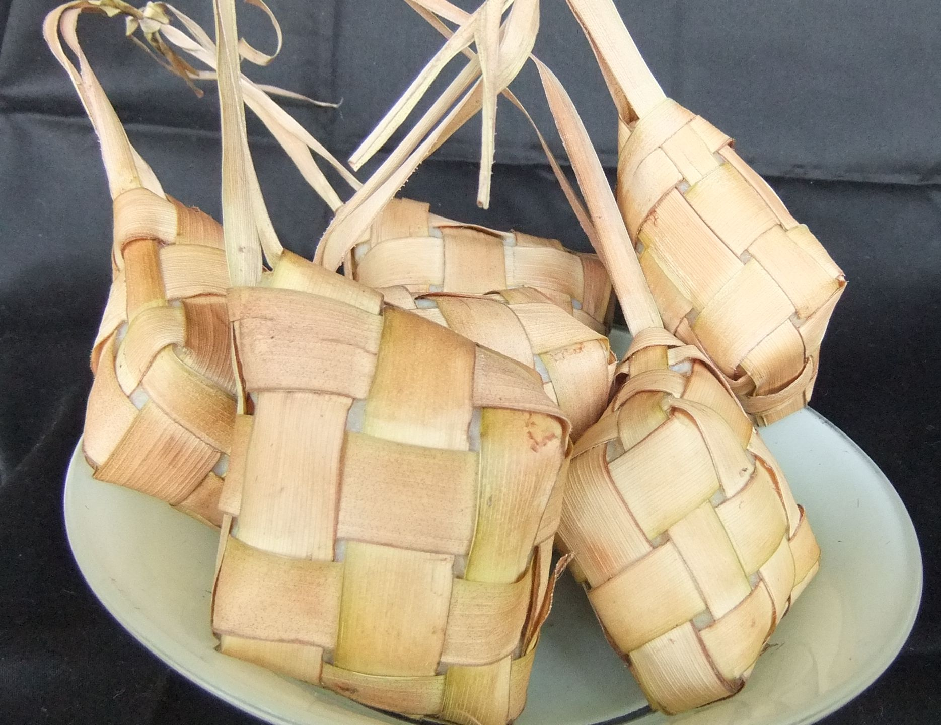 Ketupat